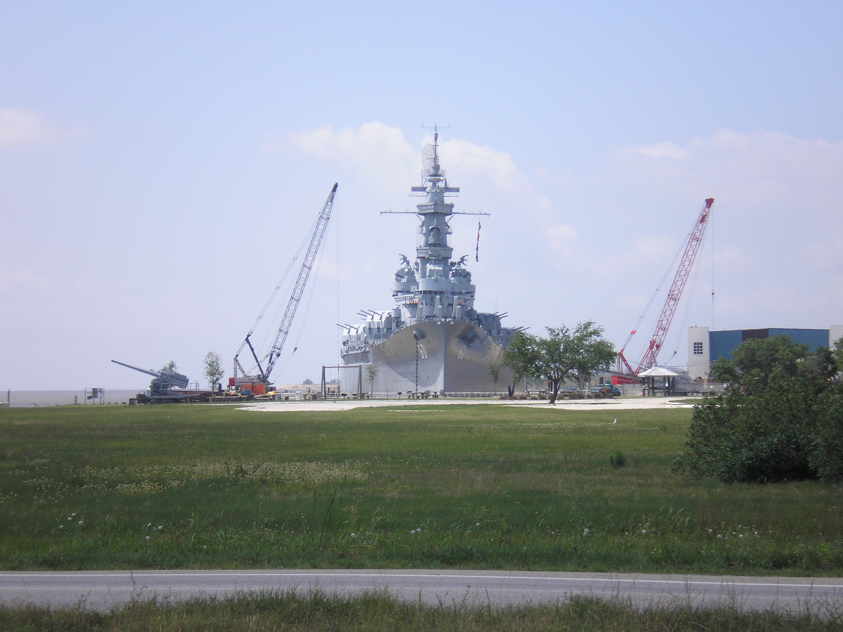 A picture of the USS Alabama (BB-60) in its permament berthing in Mobile, Alabama. Note the approximate 1 degree list that is a remainder of the more severe list created by Hurricane Katrina. Taken by the submitter on 1 May 2006 with an Olympus FE-140 digital camera.